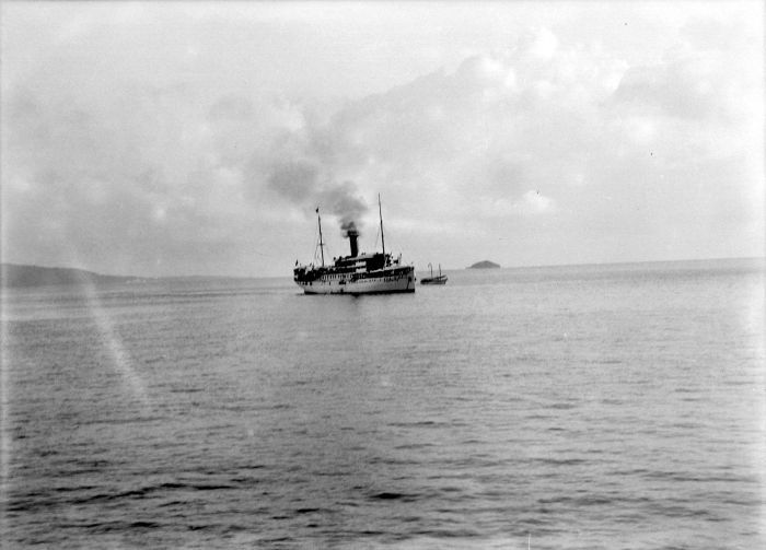 The steamship Rumphius and the Anak Krakatau